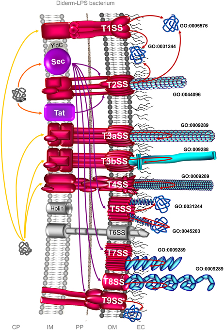 The complement of the secretome involved in colonization process in diderm-LPS bacteria.